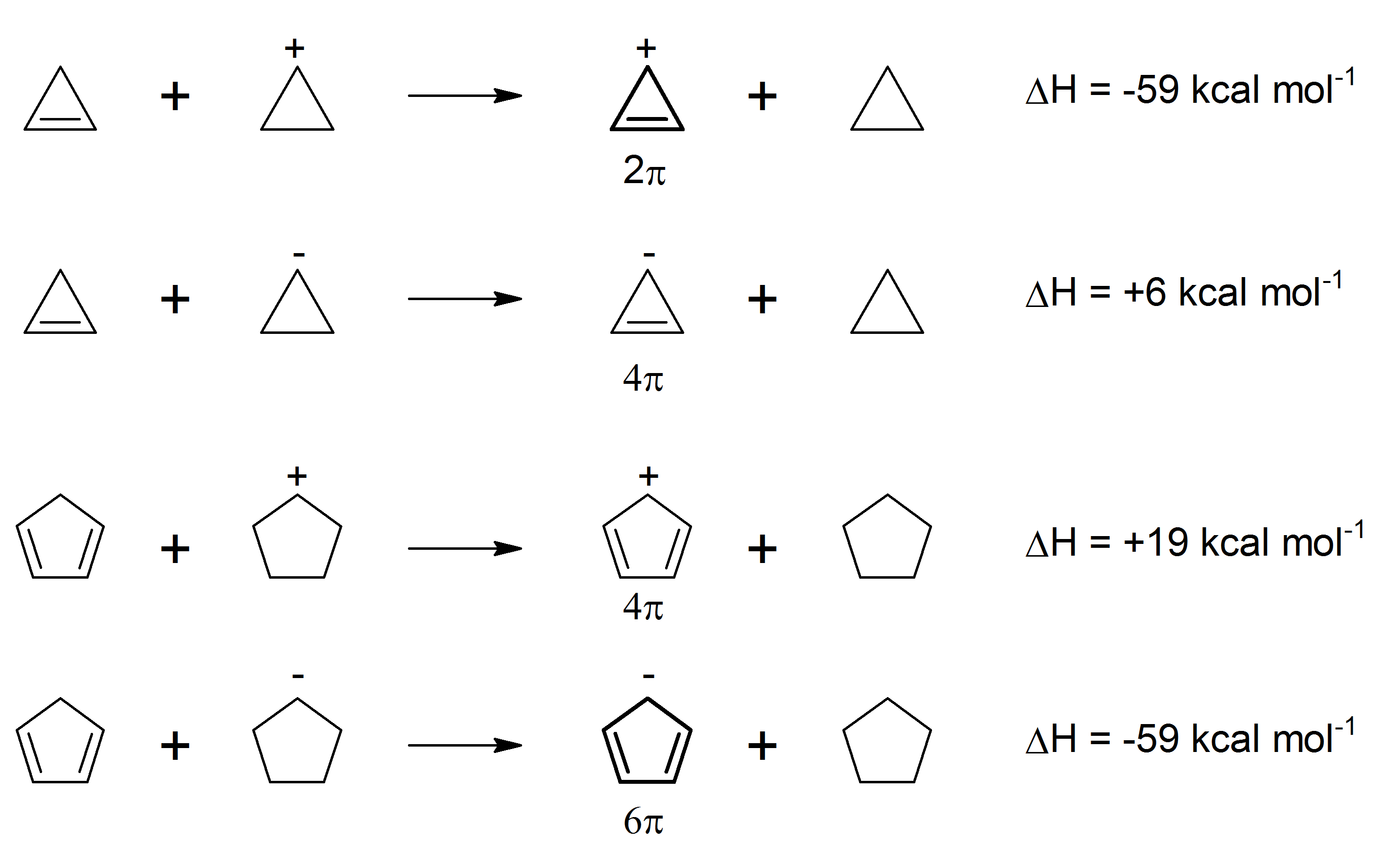 Aromaticity and antiaromaticity in three and five membered ring ions. Chem . Rev. 2001, 101, 1317.